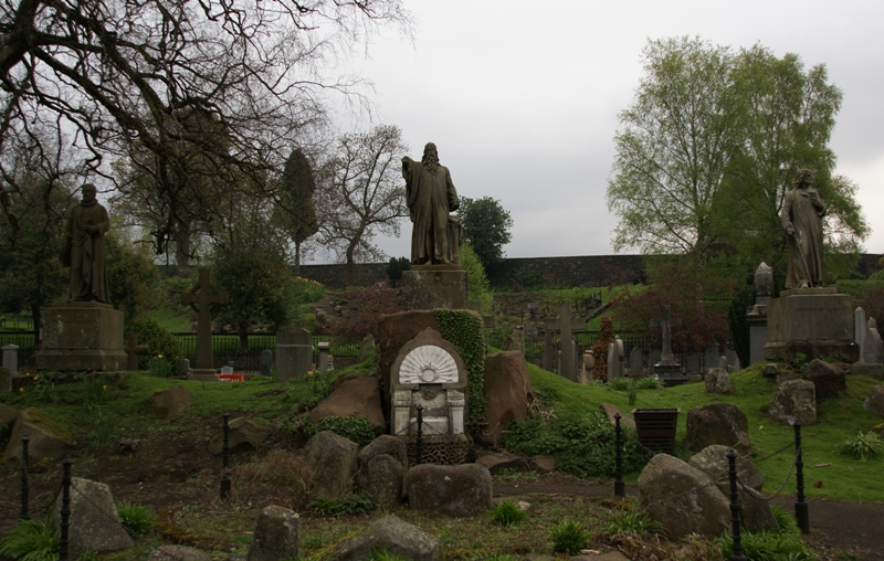 Church of the Holy Rude, Stirling, Scotland - graveyard with statues of Alexander Henderson, John Knox, and Andrew Melville